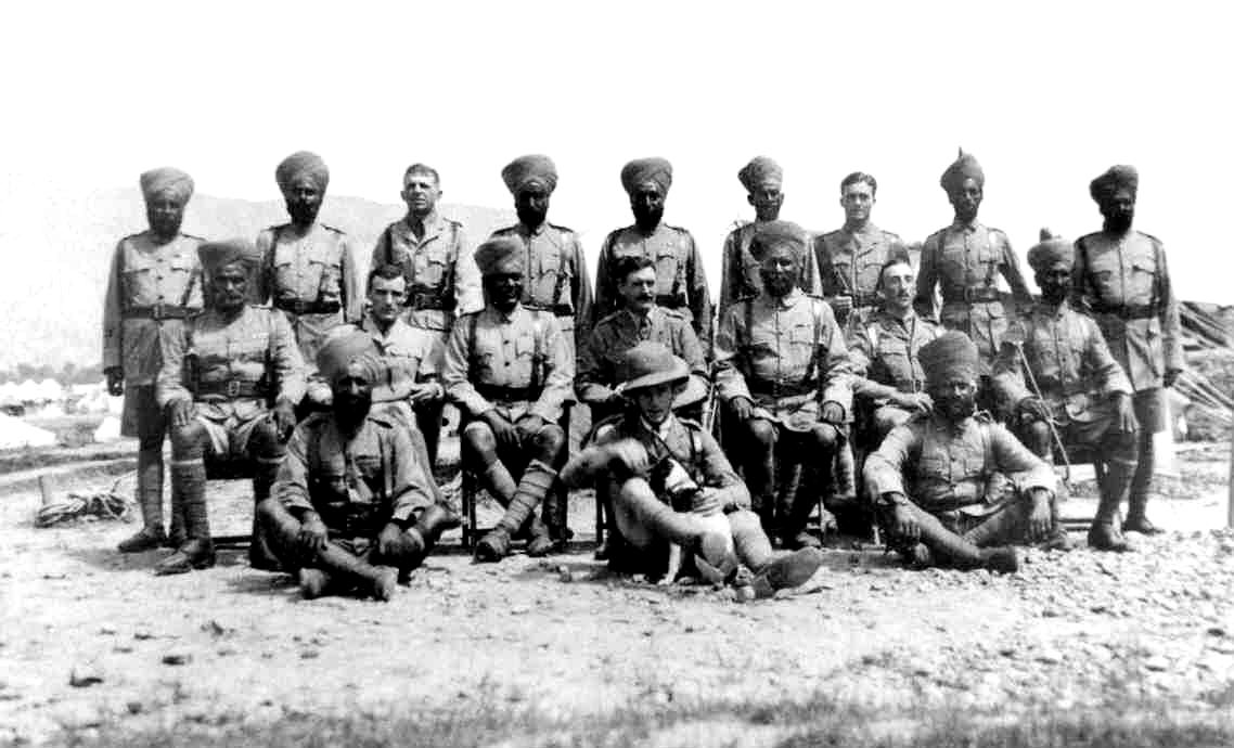 90th Punjabis (2 Baloch), Thal, 1919.